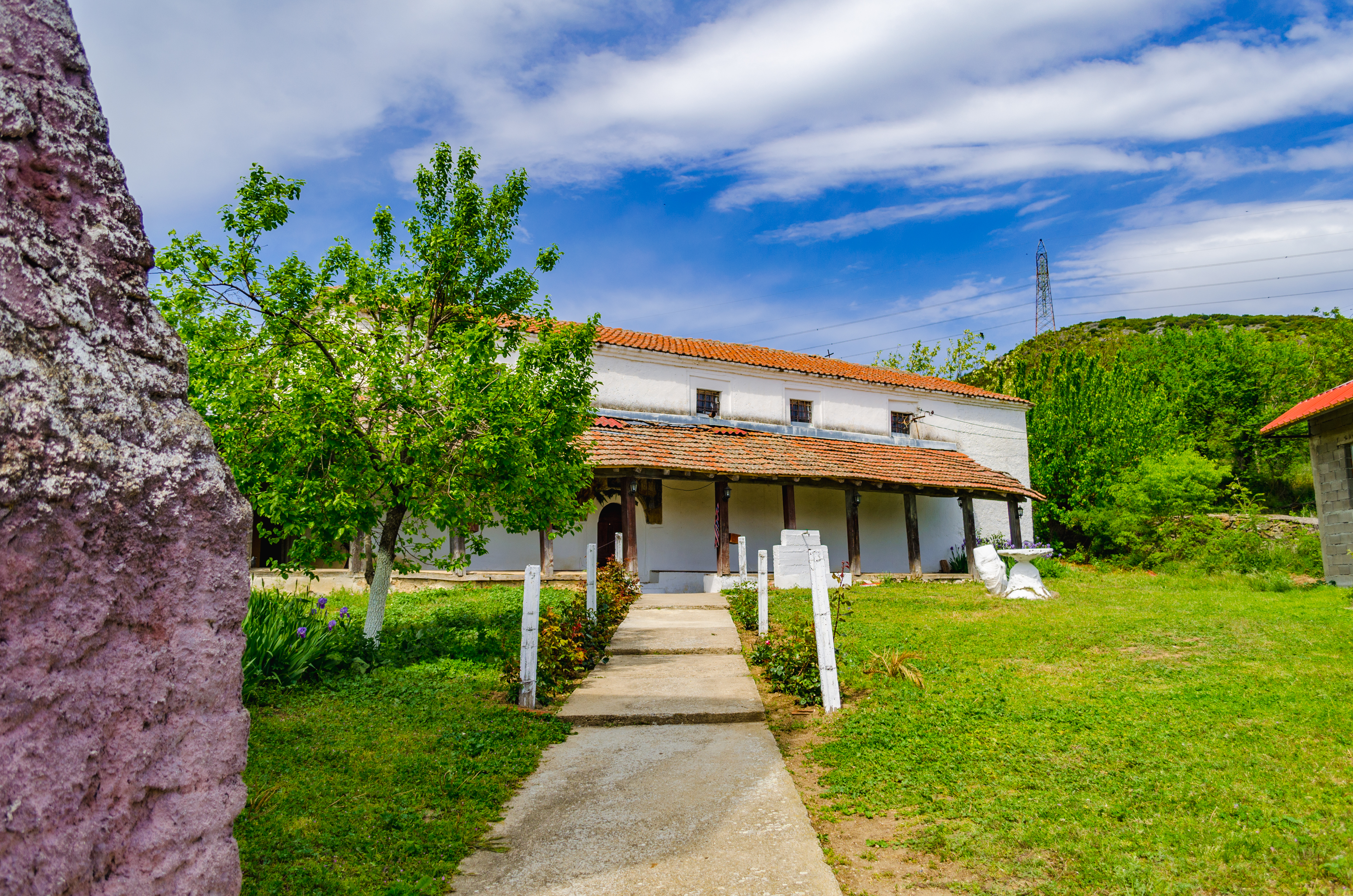 St. Michael the Archangel Church in the village of Grčište